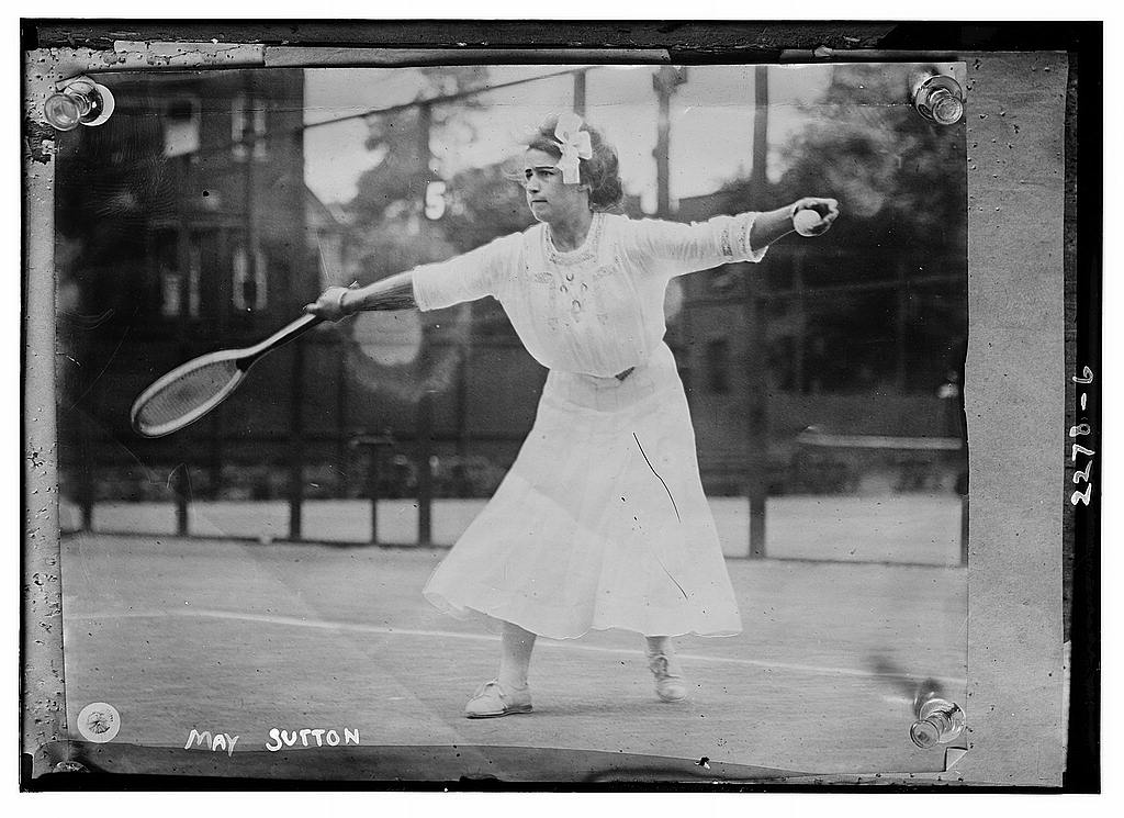 Bain News Service,, publisher. May Sutton [tennis] [between 1910 and 1915] 1 negative : glass ; 5 x 7 in. or smaller. Notes: Title from unverified data provided by the Bain News Service on the negatives or caption cards. Forms part of: George Grantham Bain Collection (Library of Congress). Format: Glass negatives. Repository: Library of Congress, Prints and Photographs Division, Washington, D.C. 20540 USA, General information about the Bain Collection is available at Persistent URL: Call Number: LC-B2- 2278-6